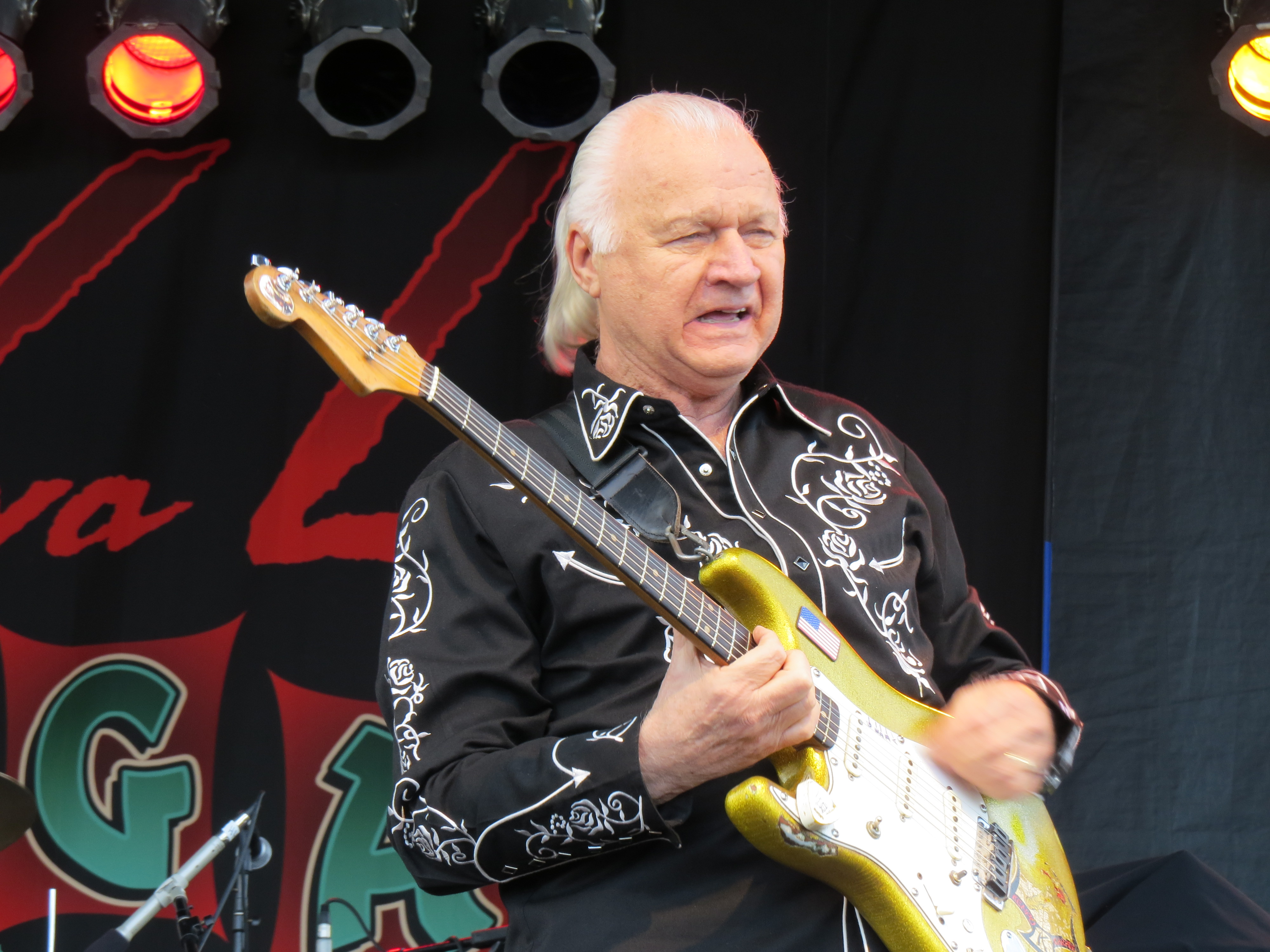 Dick Dale performing at the Orleans Hotel and Casino, Las Vegas